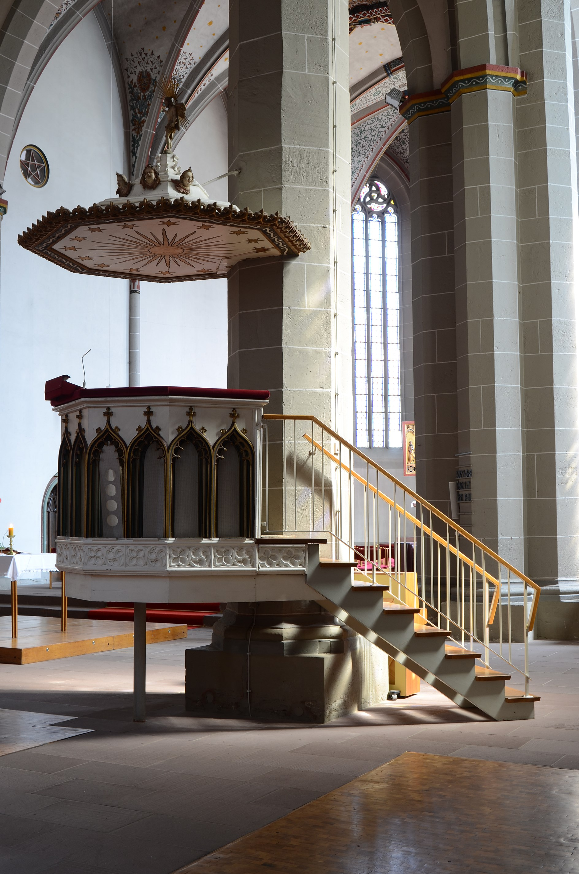 This is a photograph of an architectural monument.It is on the list of cultural monuments of Northeim This photograph was taken with a Nikon D7000 Northeim, Evangelisch-lutherische Kirche St. Sixti, Innenansicht, Kanzel